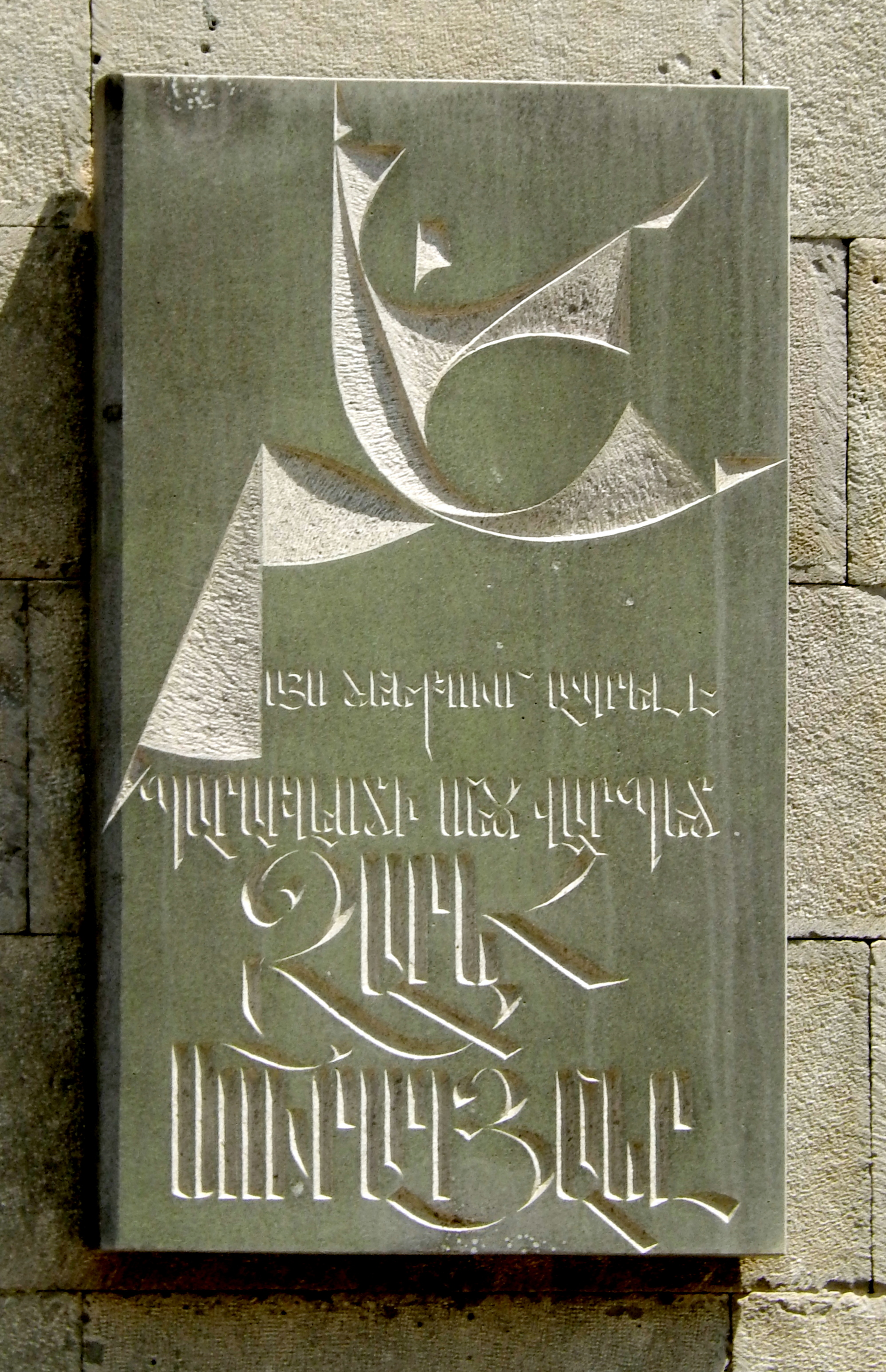 Zareh Muradyan's plaque